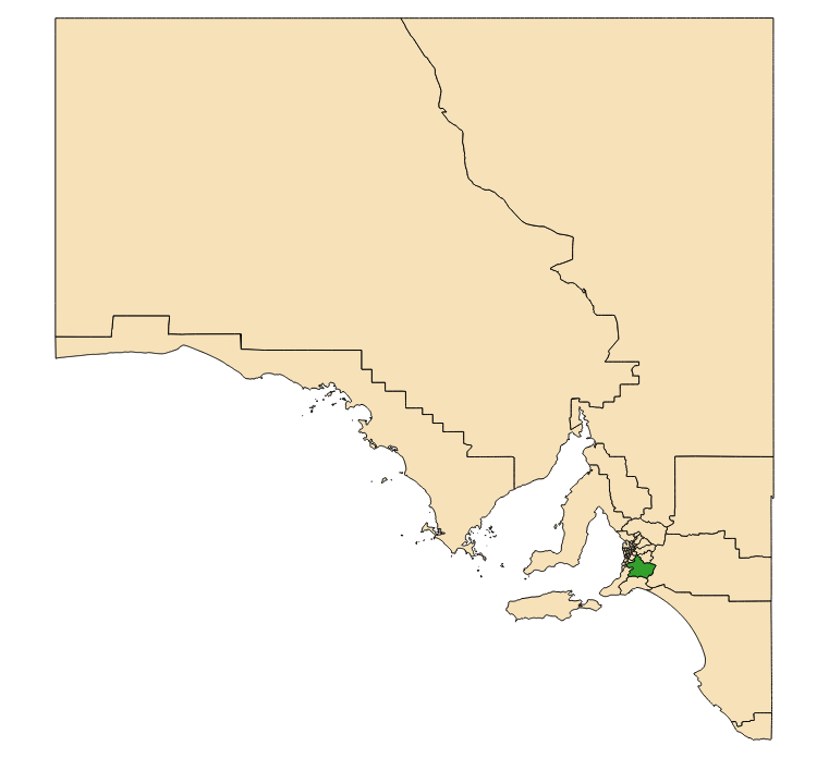 Electoral district 2018 boundaries shown in green